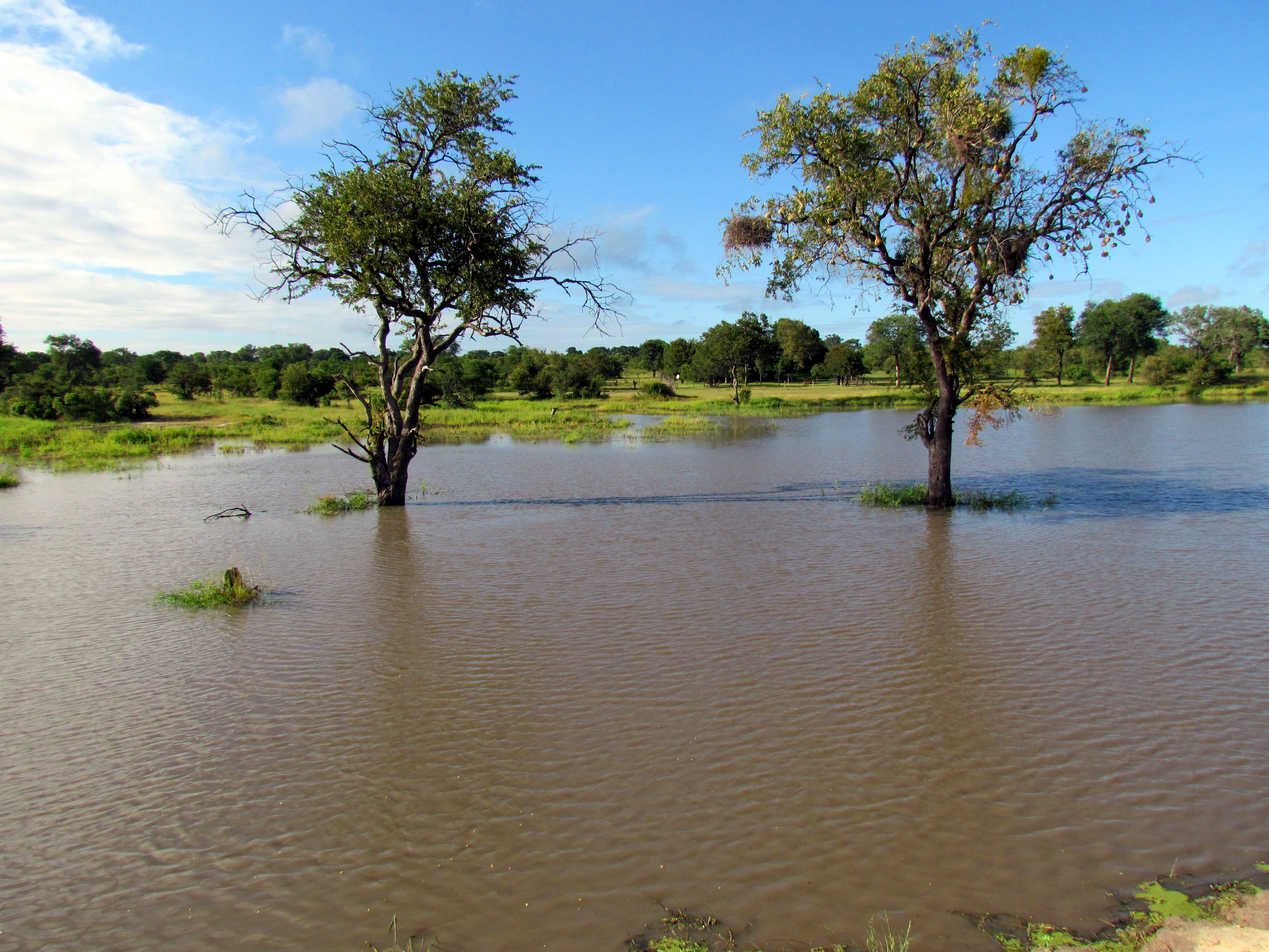 View on a dam in the Djuma Game Reserve, part of Sabi Sand Private Game Reserve, Mpumalanga, Kruger National Park